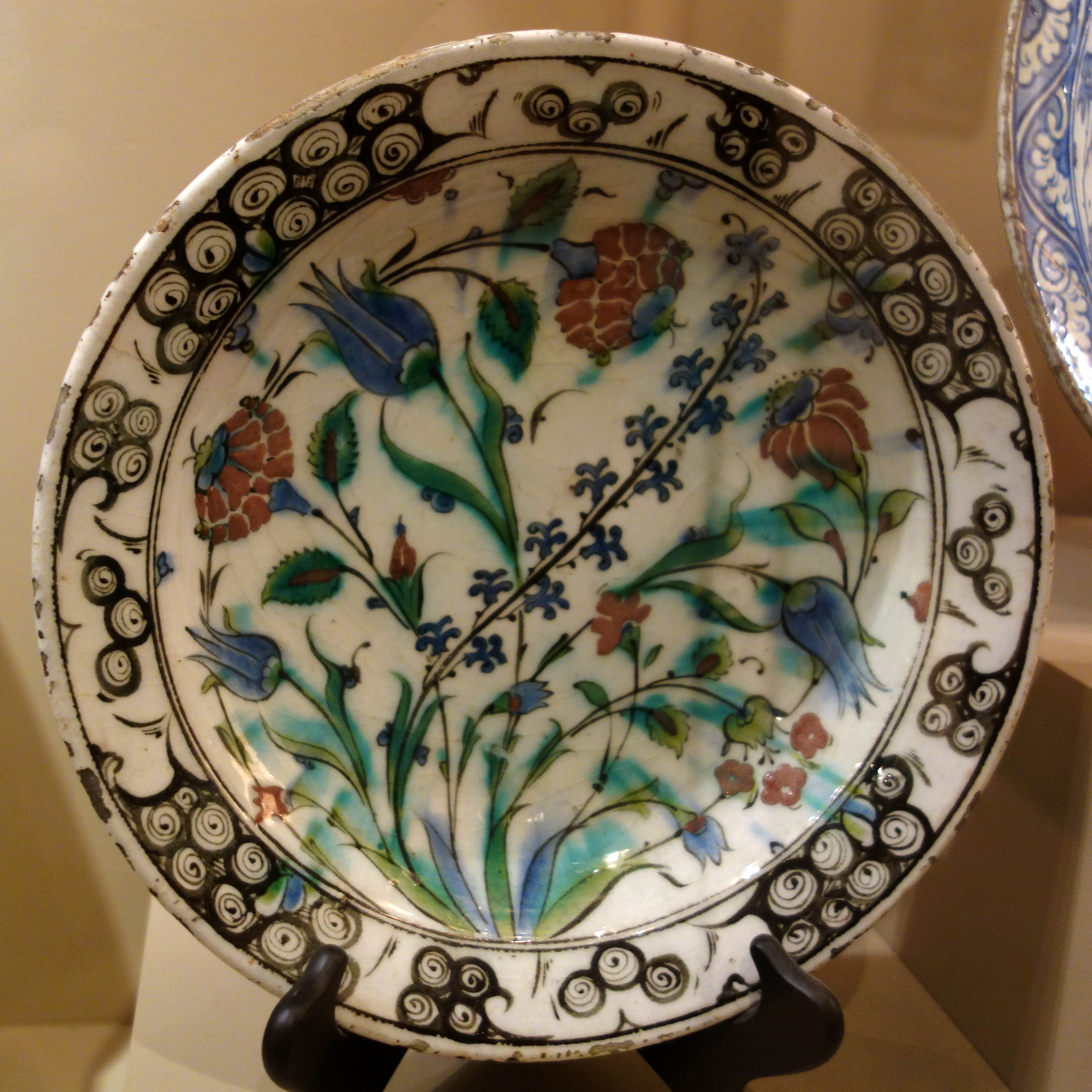 Exhibit in the Huntington Museum of Art, Huntington, West Virginia, USA. This artwork is in the public domain because the artist died more than 70 years ago.